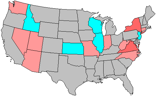 Summary of party change of U.S. house seats in the 1952 House election. Stripes indicate a tie between the gains of two or more parties. Legend: 6+ Democratic seat pickup 3-5 Democratic seat pickup 1-2 Democratic seat pickup 1-2 Republican seat pickup 3-5 Republican seat pickup 6+ Republican seat pickup Note: years ending in 2 may have inconsistent results due to redistricting.